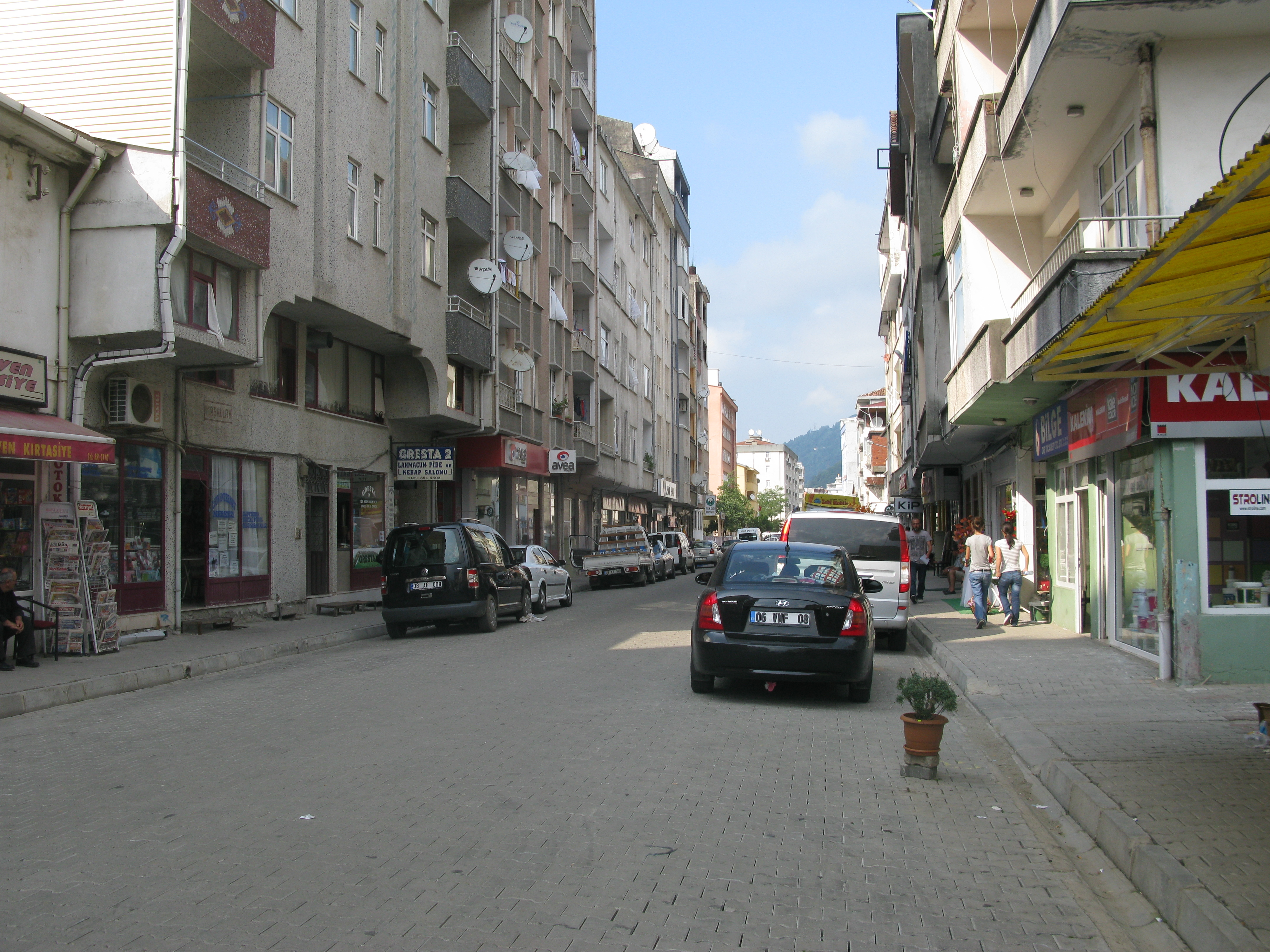 Centre of Hopa in the province of Artvin in Turkey.